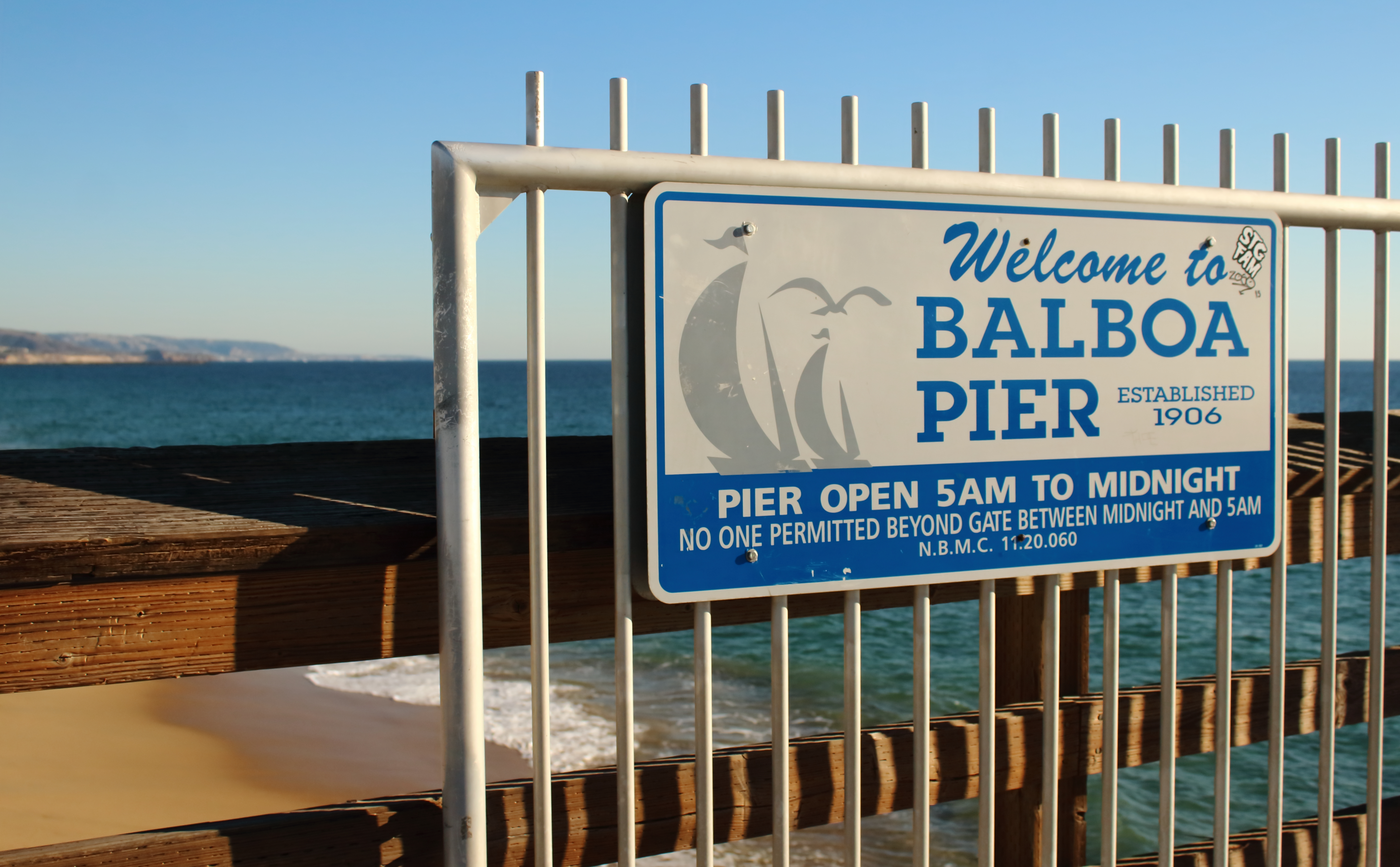 Signaling of Balboa Pier in Newport, California.